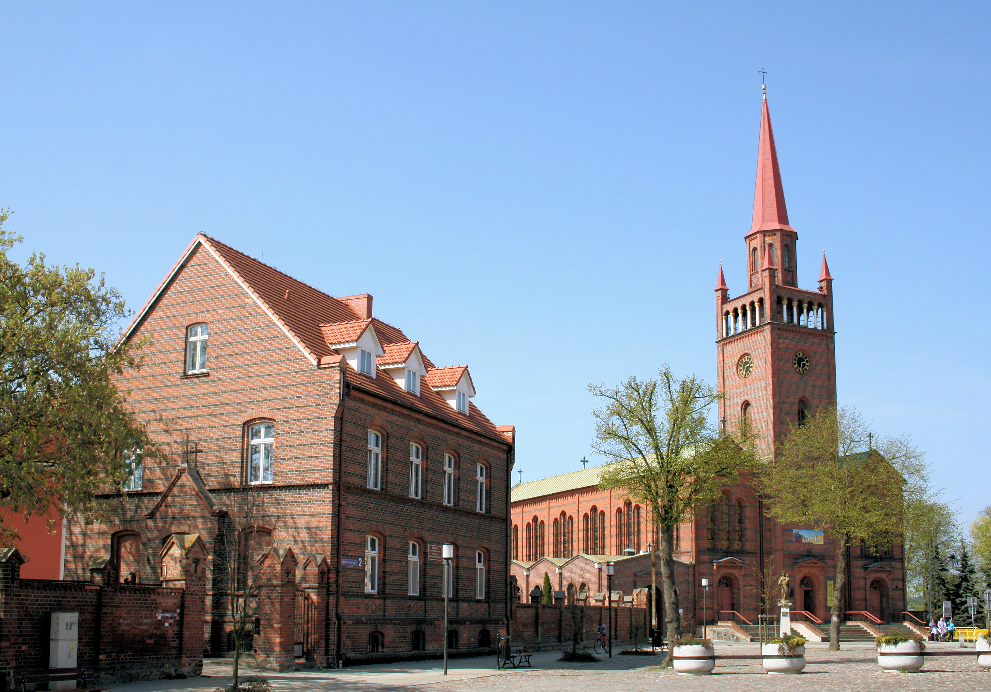 Church Saint Apostole Peter and Paul in Dębno